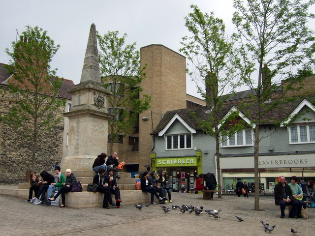 Bonn Square, Oxford, England, with the Tirah monument on the left